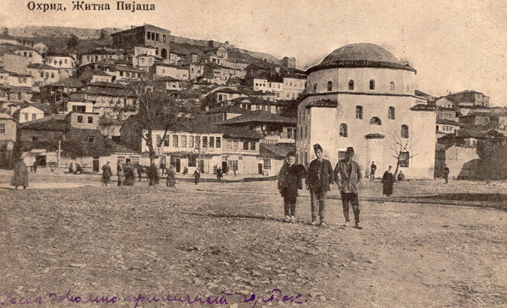 Postcard of Ohrid, 1930's This media file is produced by Wikipedian in Residence in Category:Wikipedian in Residence at DARM in 2016.